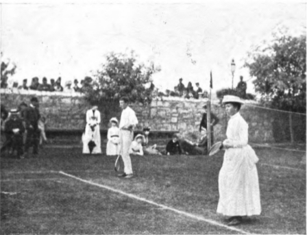 Original description: "The mixed doubles champions 1886: Mr. W. Renshaw and Miss Bingley."